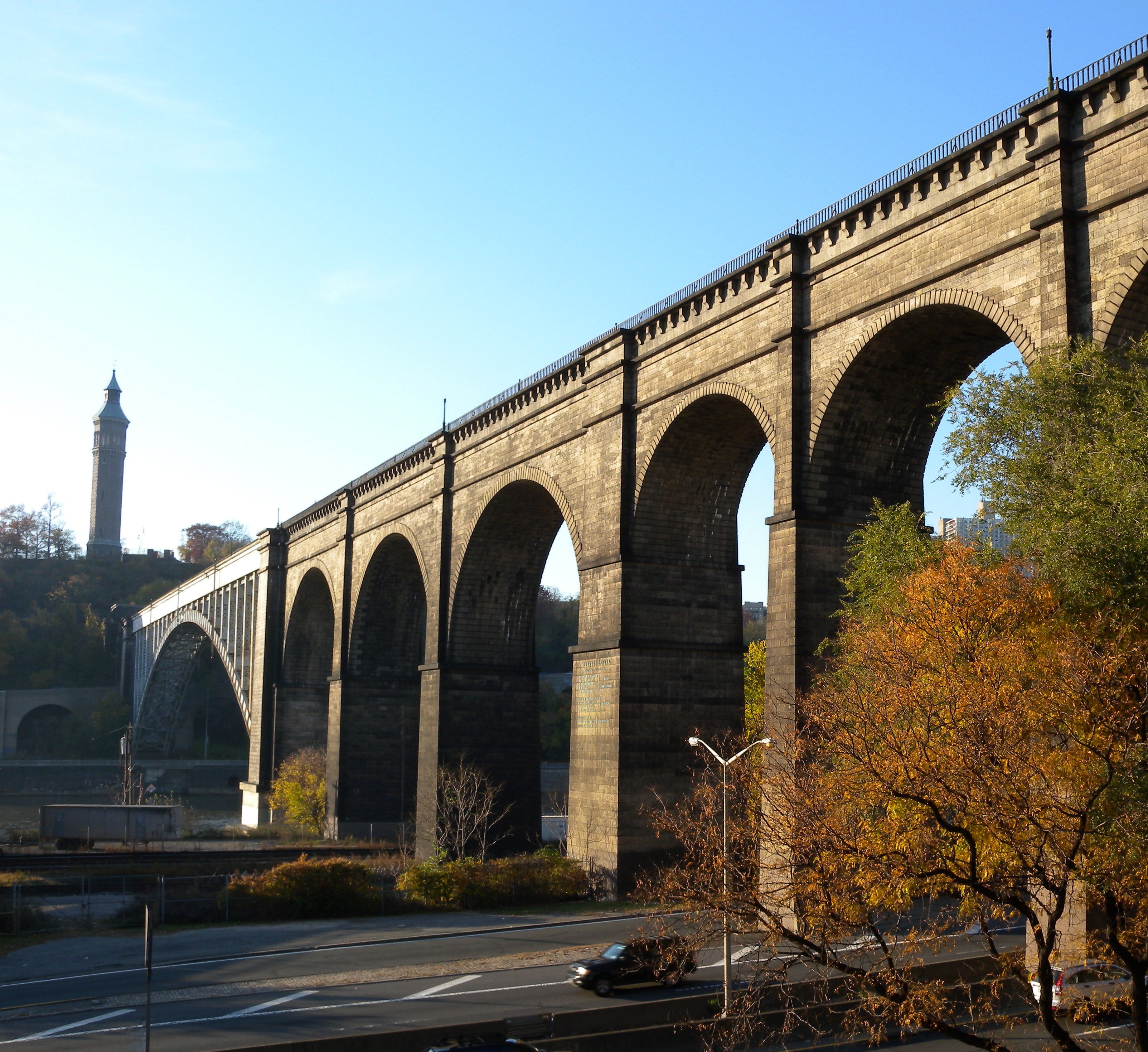 Looking west across Major Deegan Expressway as High Bridge crosses it to Manhattan on a sunny November afternoon. EXIF says September due to photographer's error.